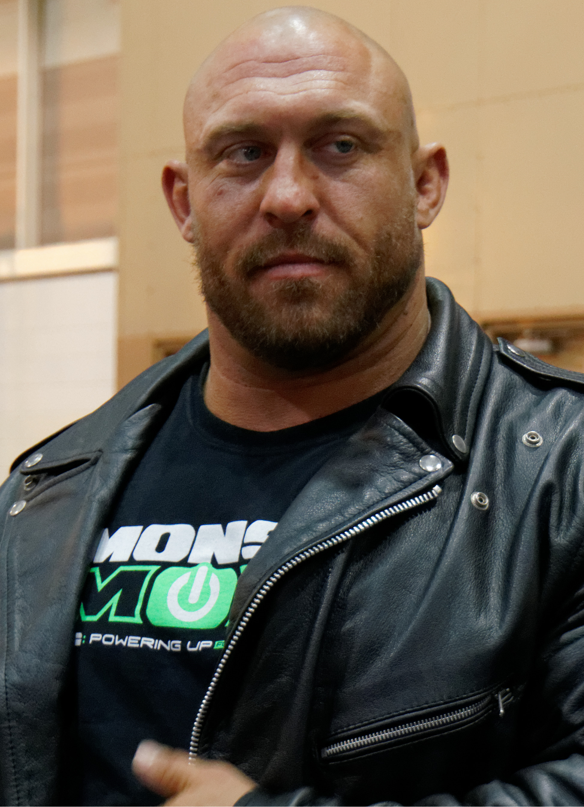 Professional wrestler Ryback from April 2014.